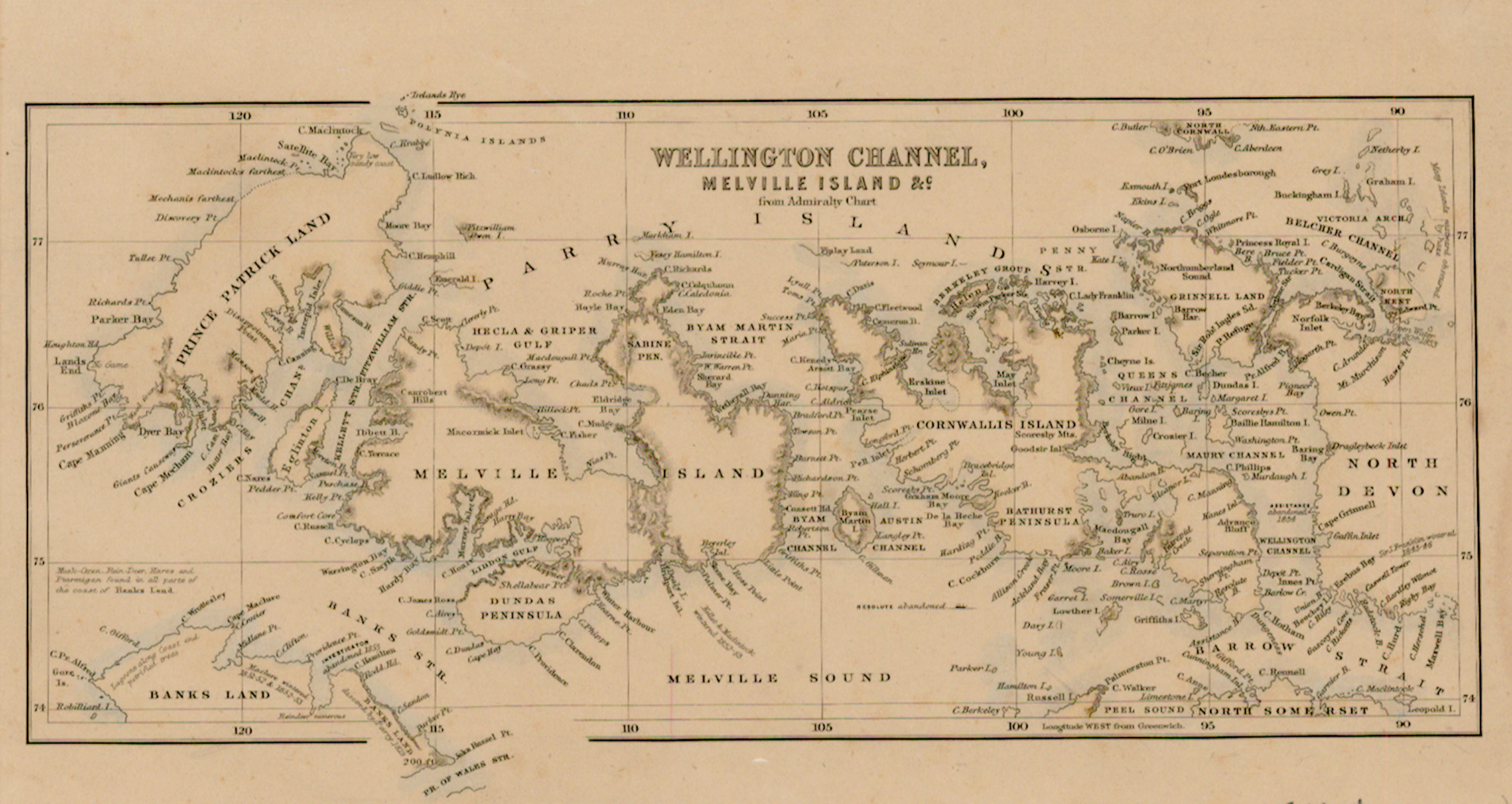 Western Queen Elizabeth Islands, formerly Parry Islands or Parry Archipelago, in Northern Canada